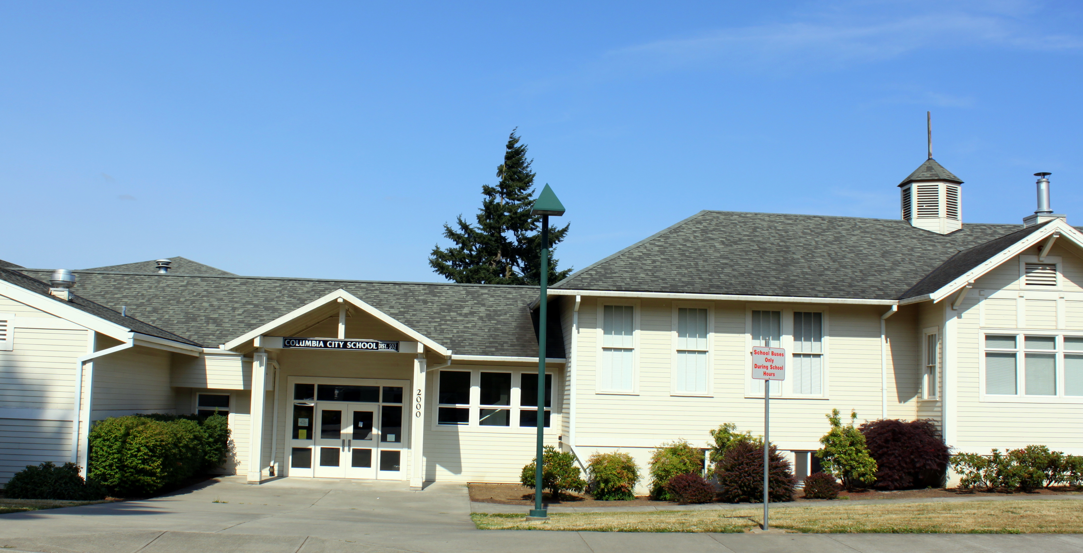 Columbia City School (elementary only?) in Columbia City, Oregon.